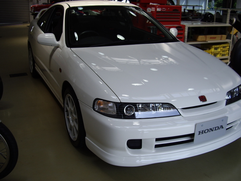 a 98spec Integra Type R, being restaurated in a garage next to the Honda Collection Hall at Twin Ring Motegi circuit in Japan.